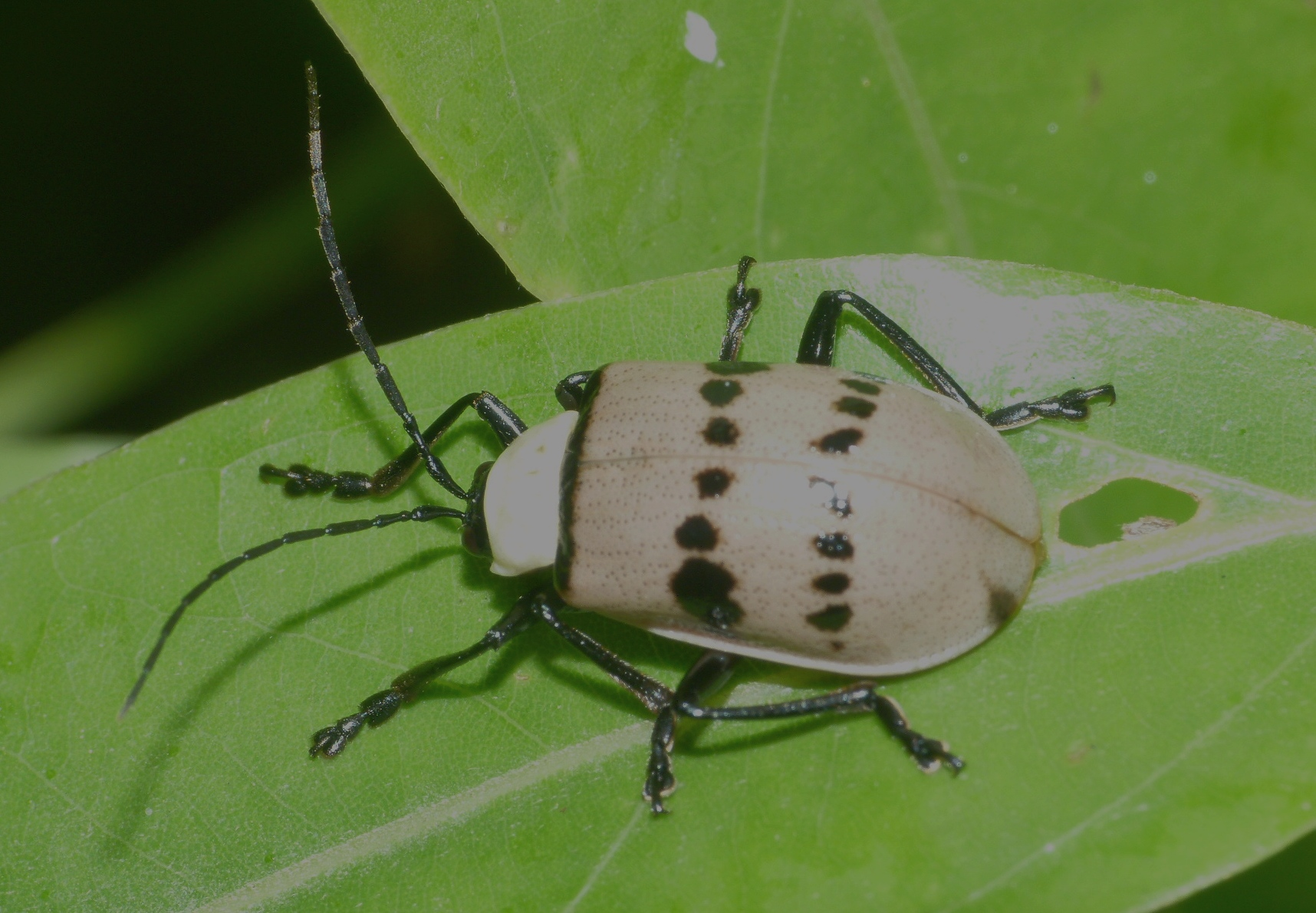 Meristata trifasciata (Hope, 1831), Galerucinae: Chrysomelidae: Coleoptera. From Munsiyari, India. Identification courtesy of Dr Michael Geiser, NHM, London.